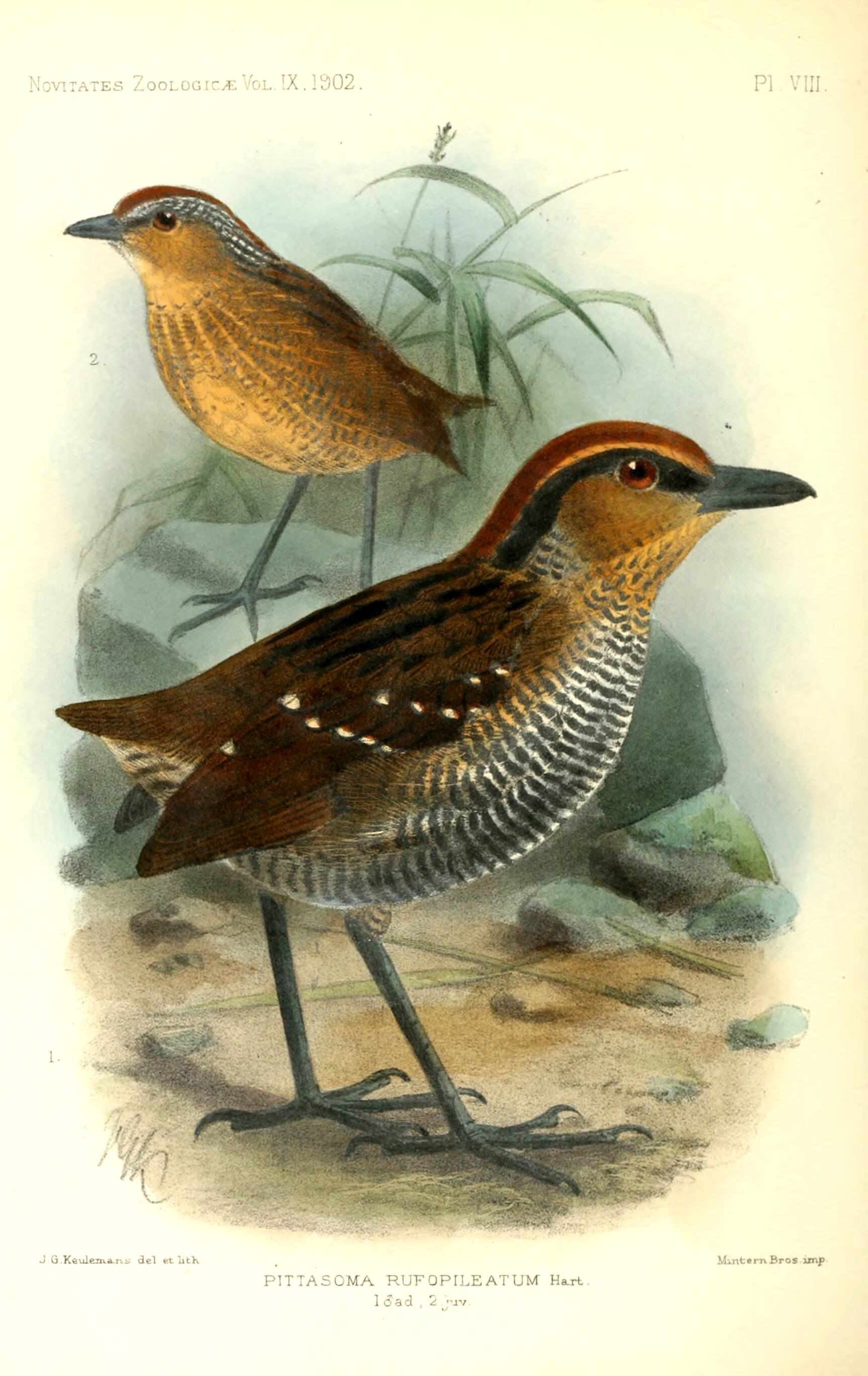 « Pittasoma rufopileatum » = Pittasoma rufopileatum (Rufous-crowned antpitta)